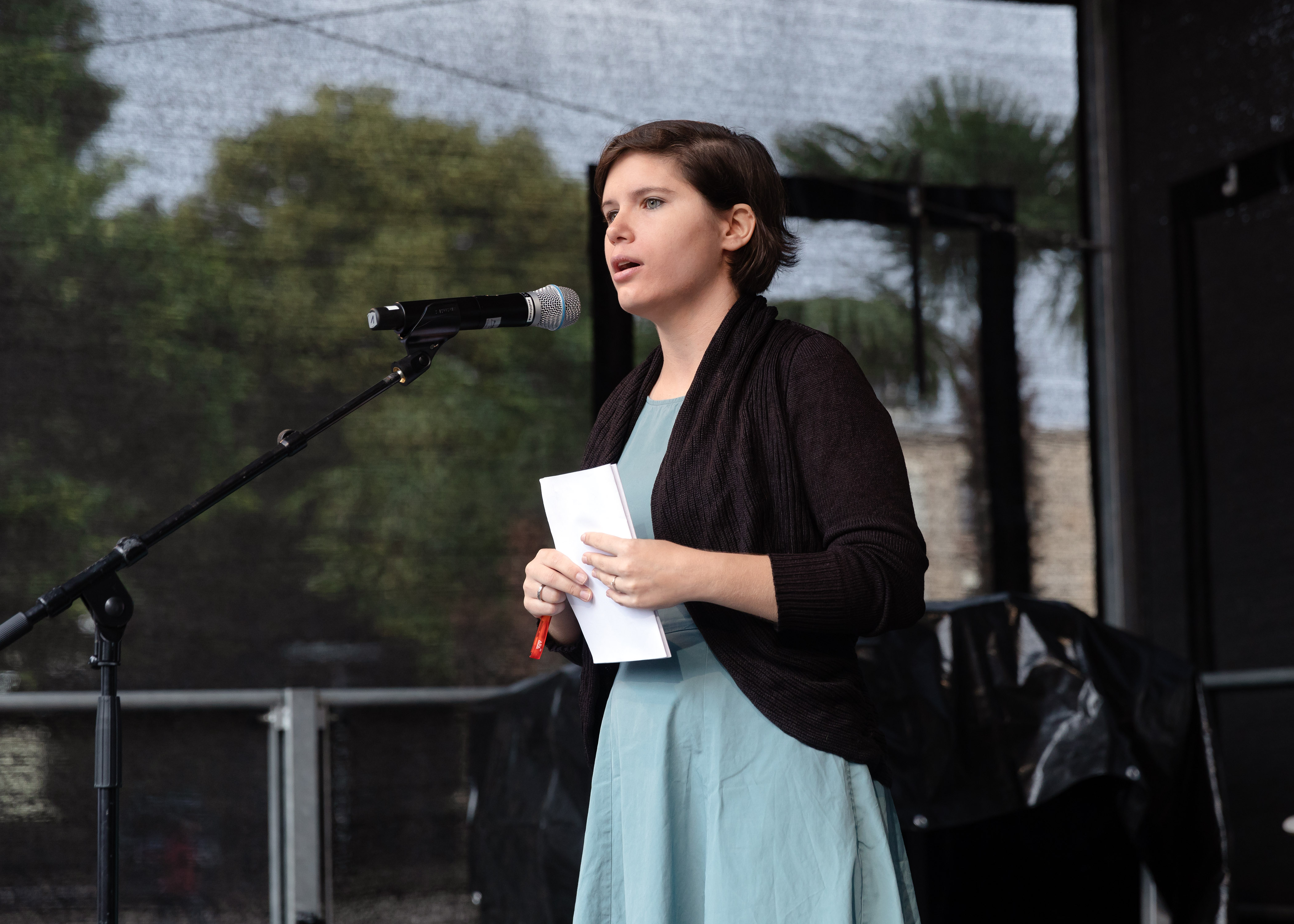 Ingrid Brodnig at a protest against the governments plans for the public broadcaster ORF (Karlsplatz, Vienna, Austria).